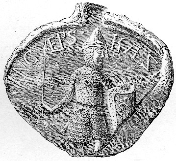 Casimir I, Duke of Pomerania - 1170